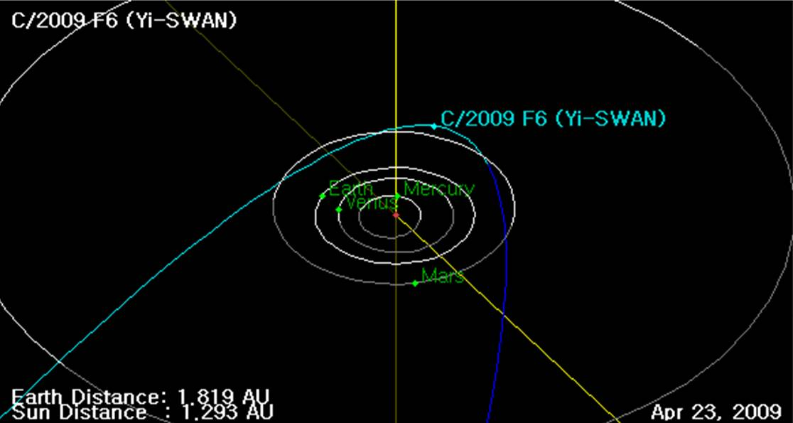 Comet Yi-SWAN (C/2009 F6) Orbit Apr 23, 2009.